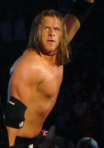 Curt Hawkins